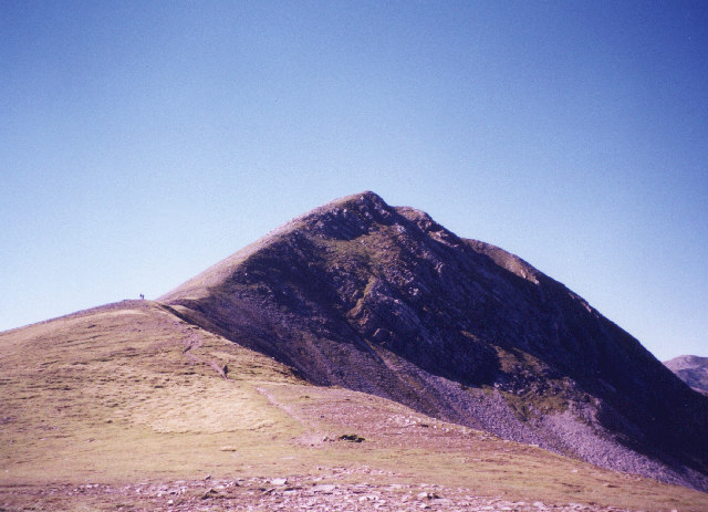 On the col below Stob a'Choire Mheadhoin. Looking south-west to Stob Coire Easain